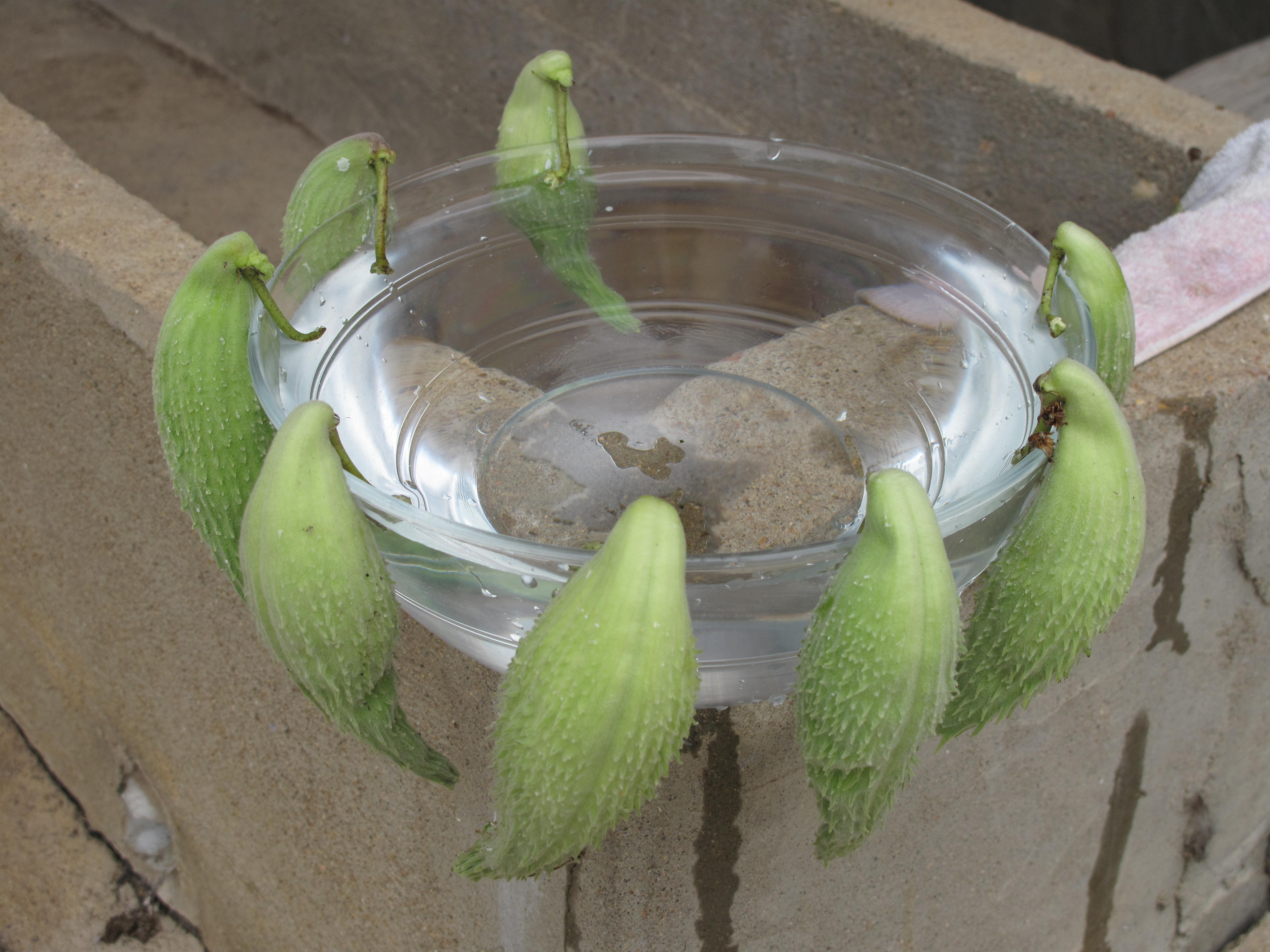 Fruits of Asclepias syriata used as decoration for their parrot looking.